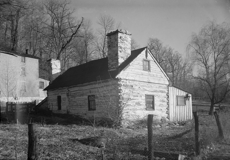 Lower Swedish Cabin on NRHP